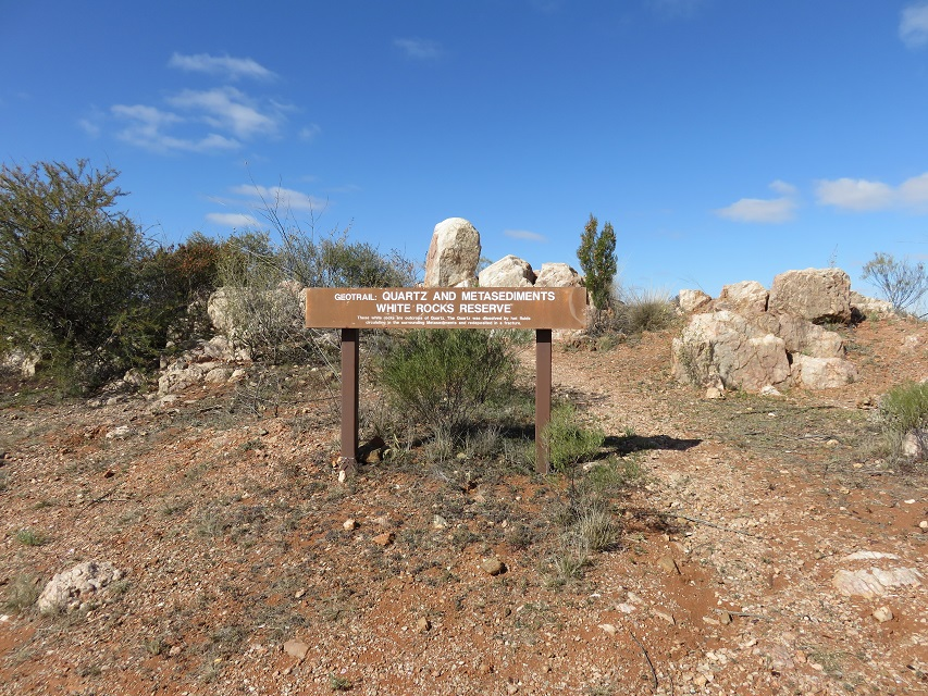 1915 Picnic Train Attack and White Rocks Reserve: Quartz rocks at the White Rocks Reserve